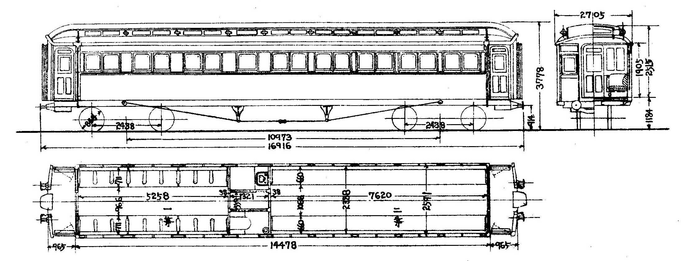 Type drawing of JGR's Hoiro5150 type passenger car (Gubusha No.121)